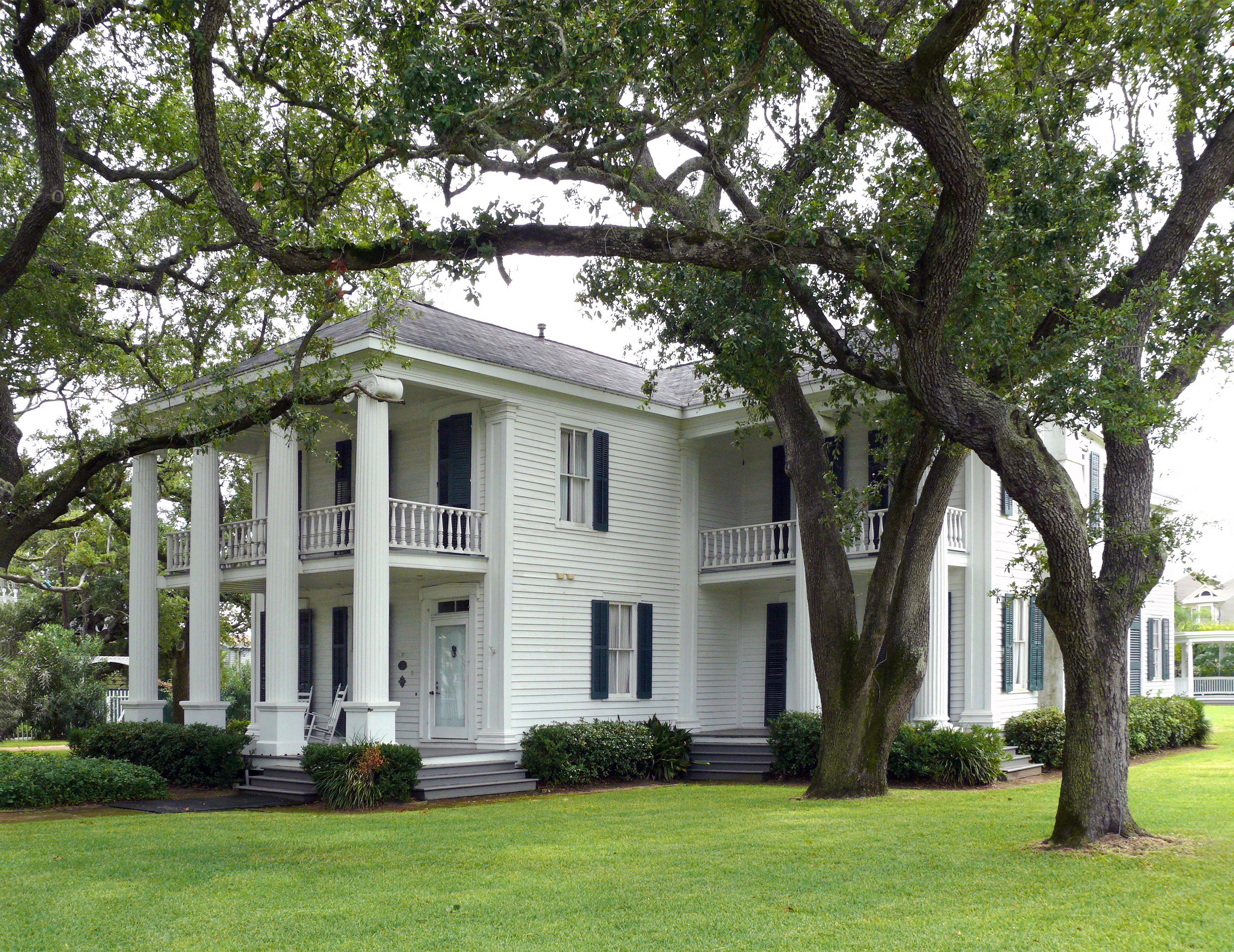 Michel Menard was Founder of the city of Galveston. A signer of the Texas Declaration of Independence. Member of the Congress of the Republic of Texas. His home was later sold to the Allen brothers, founders of Houston.